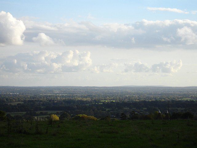 The Weald. From Charltan Lane on the greensand ridge. The oast houses visible on the right are at TQ 833 494. Grid reference is the viewpoint.